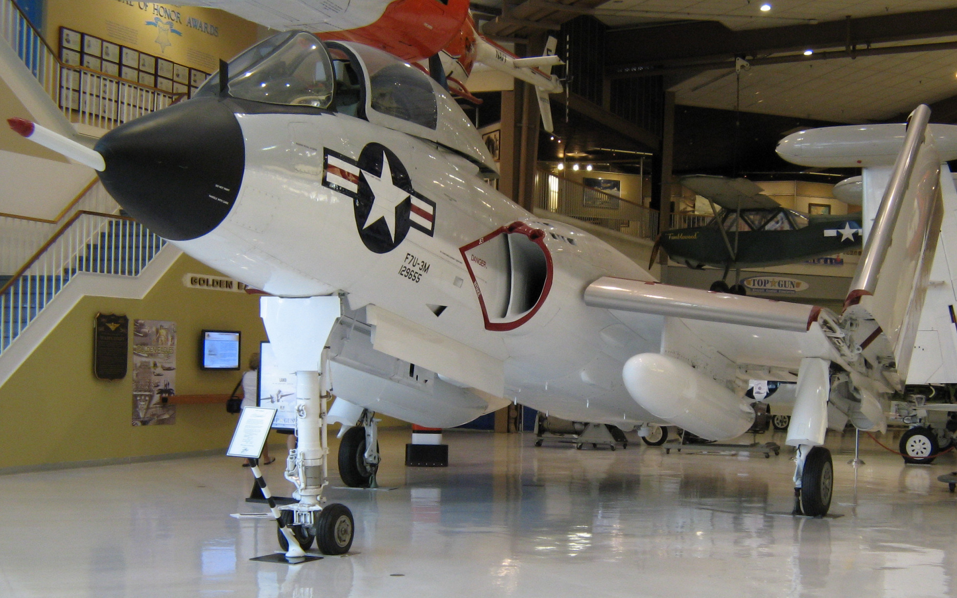 Vought F7U-3M Cutlass, Naval Aviation Museum, Pensacola, Florida